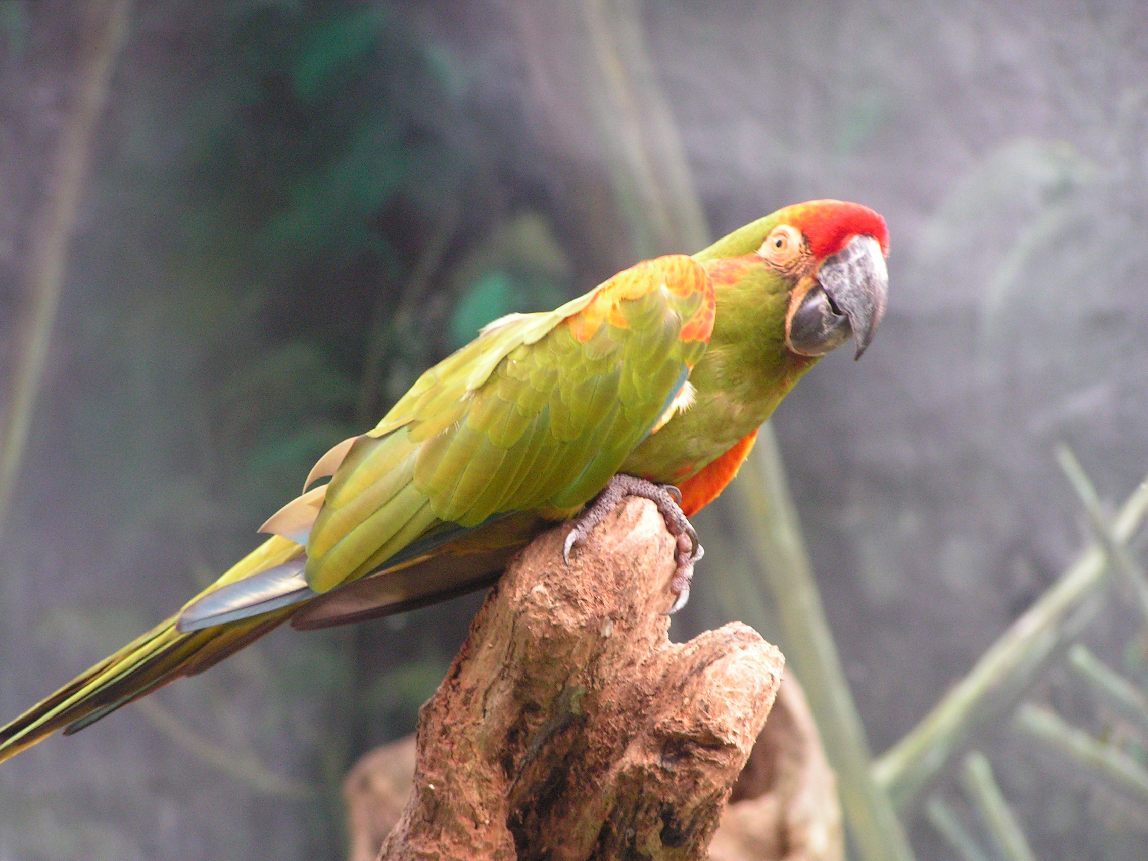 Red-fronted Macaw in captivity at Jurong BirdPark, Singapore. Photographed on 19 December 2004.